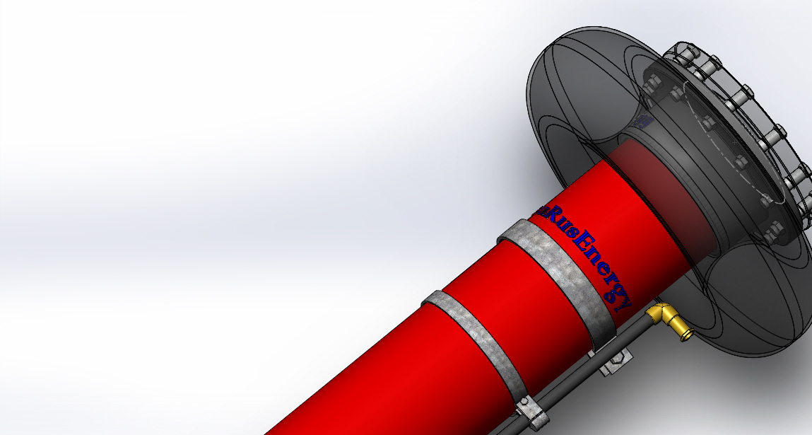 Russian wave generator Ocean 640